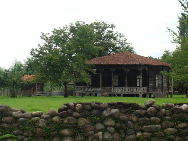 Shalva Radiani Museum in Dvabzu